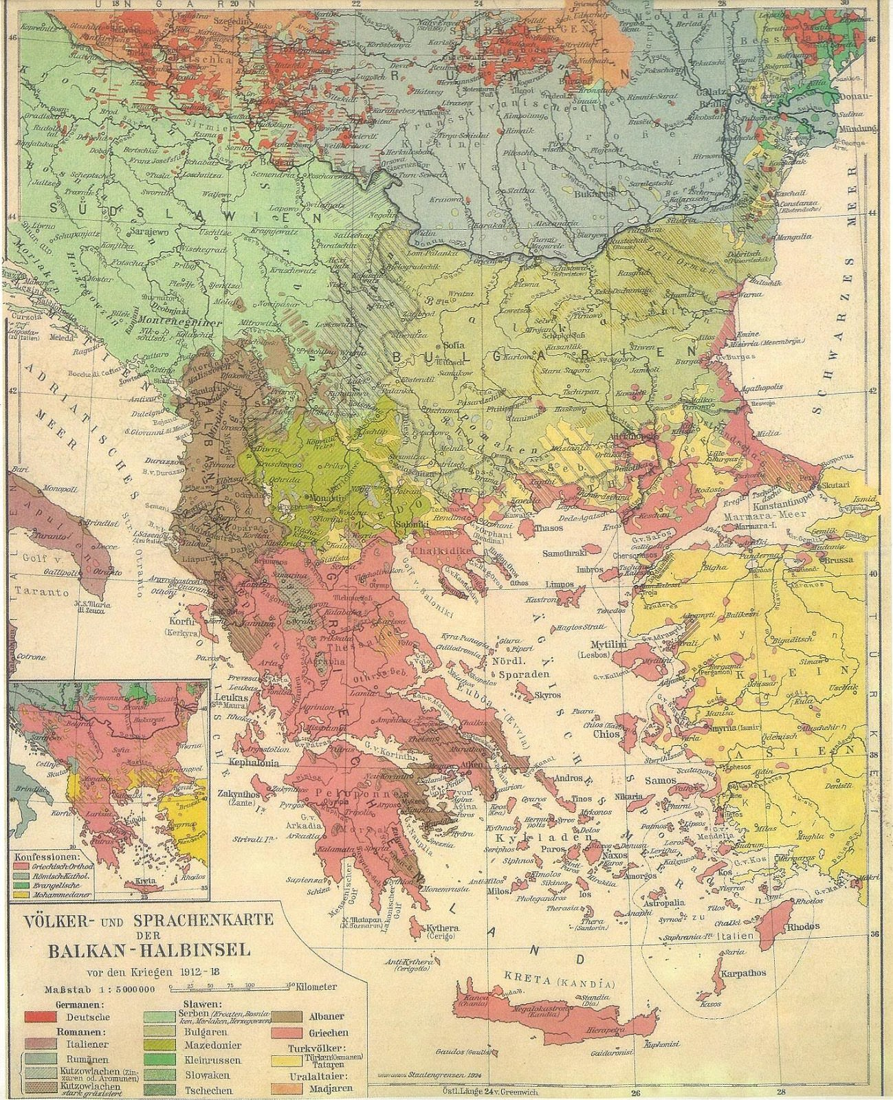 Ethnographic Map of the Balkans (1912-1918) published in Historische alte Landkarte (Sammlerstück) von 1924